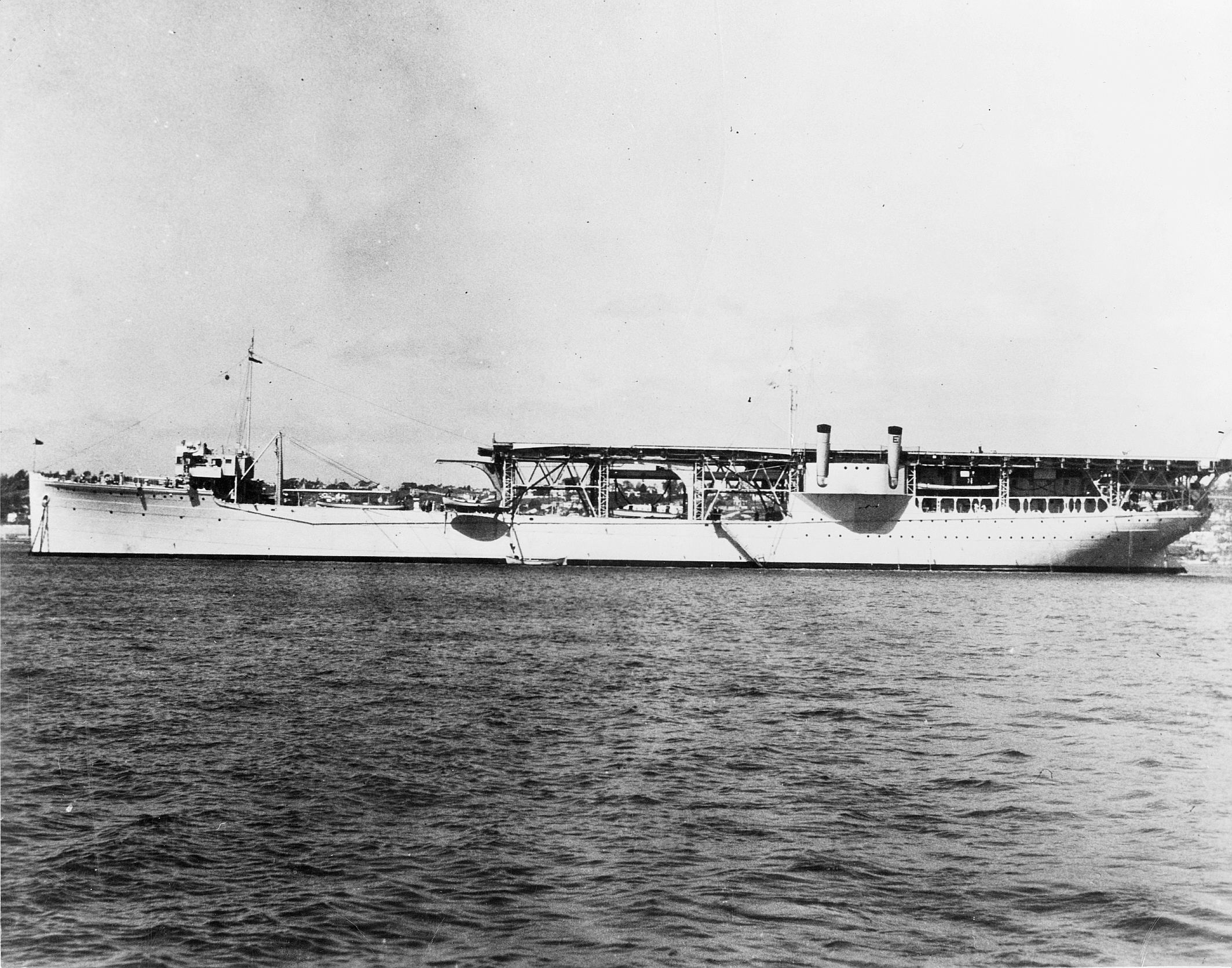 The U.S. Navy seaplane tender USS Langley (AV-3) at anchor shortly after her conversion to a seaplane tender. Note the Navy "E" on the aft stack.